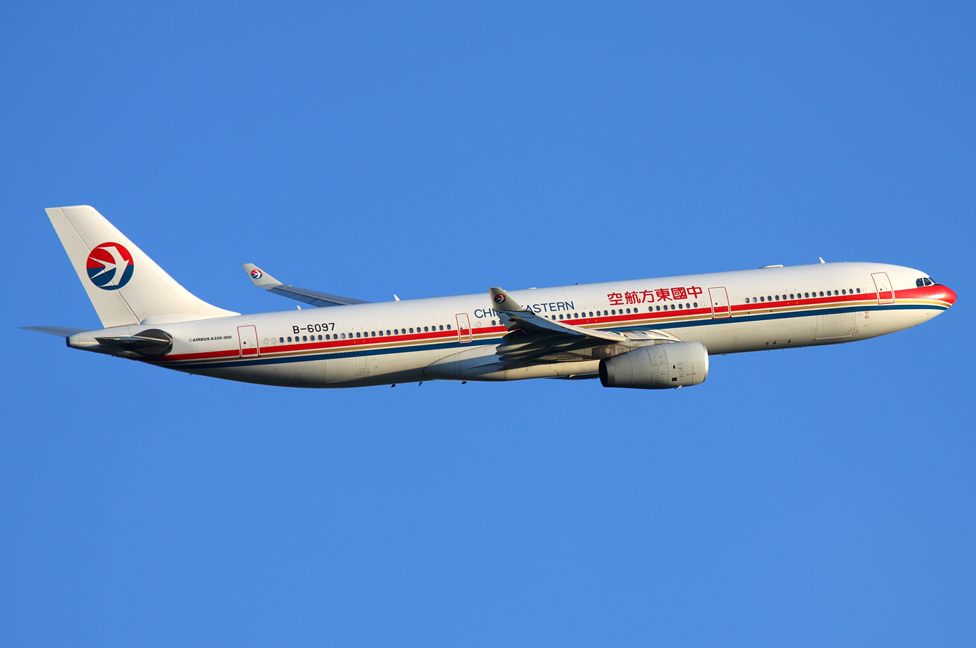 A China Eastern Airlines Airbus A330-343X shortly after it departed Sheremetyevo International Airport (SVO / UUEE)